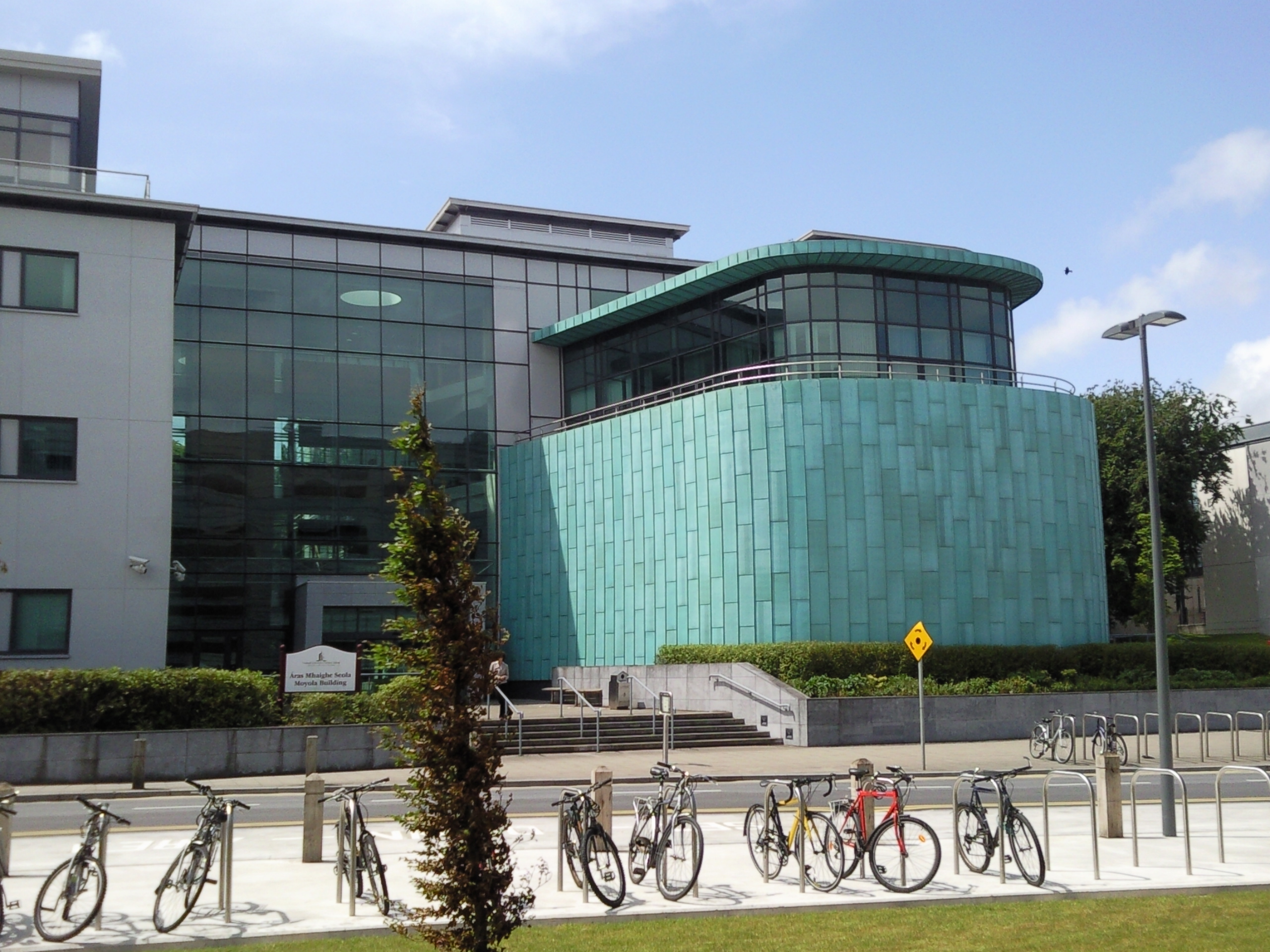 Photo of the Health Science Building in NUIG